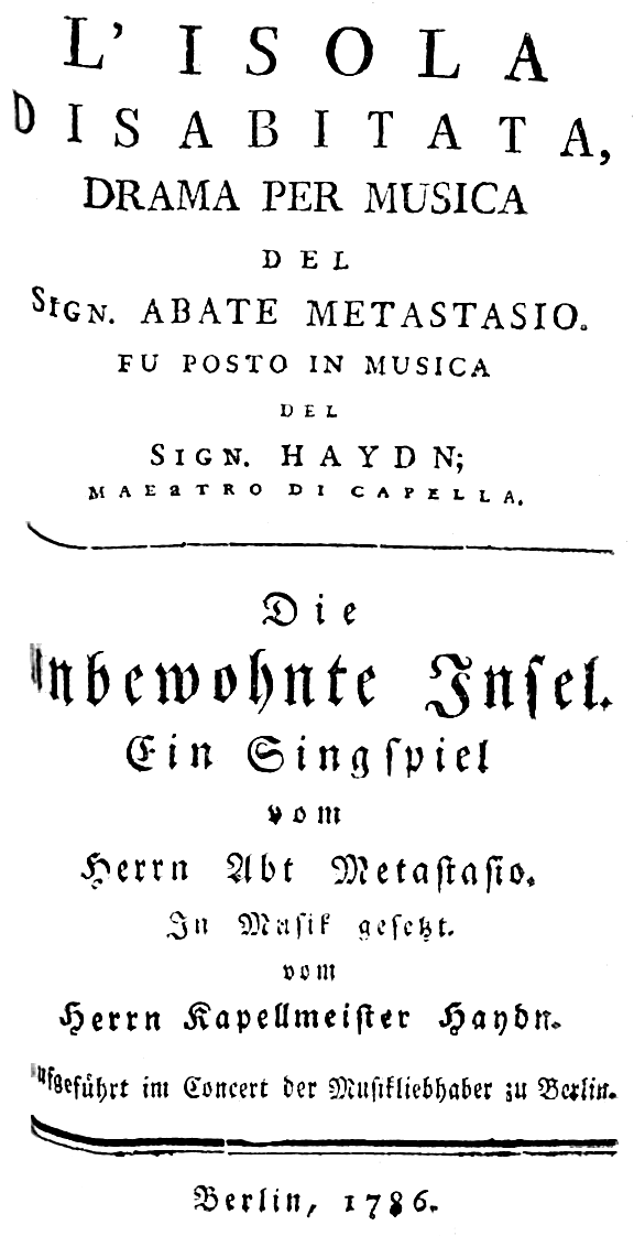 Joseph Haydn - L’isola disabitata - titlepage of the libretto - Berlin 1786